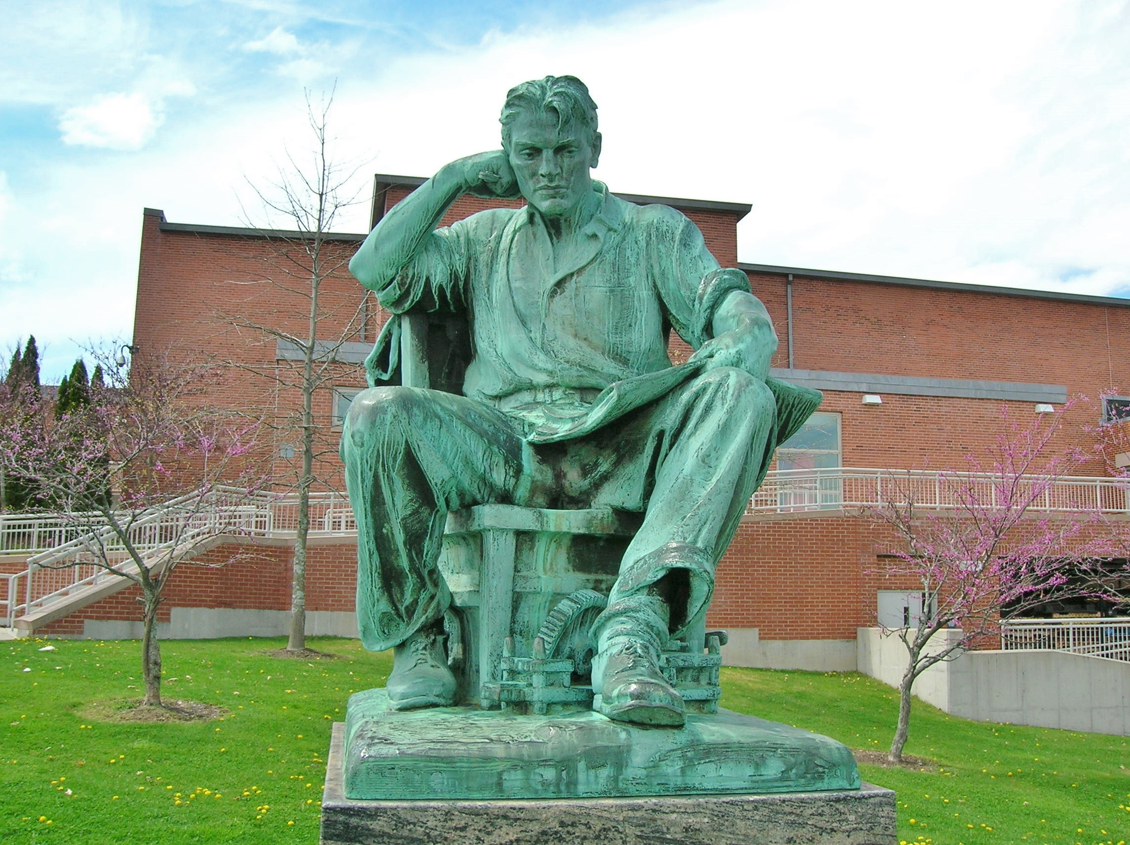 Monument titled "The Craftsman" or "Industry" by Evelyn B. Longman, 1931. Located at A.I. Prince Technical High School, Hartford, Connecticut.